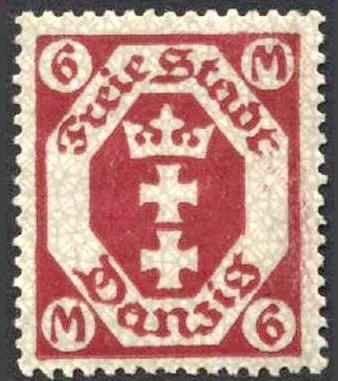 Danzig 1922 6 M stamp